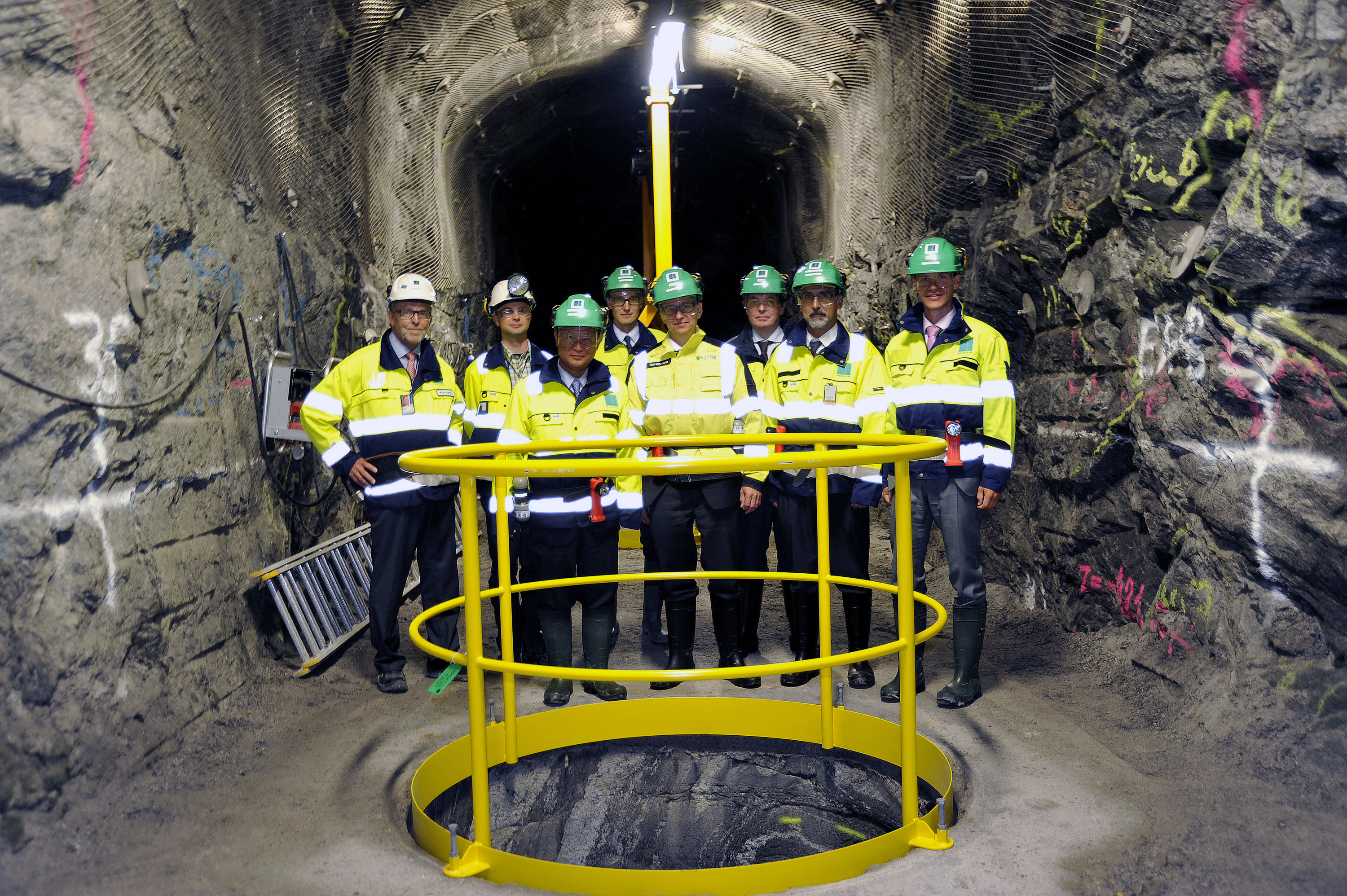 IAEA Director General Yukiya Amano tours the underground rock characterisation facility (ONKALO), a nuclear waste repository, during his official visit to Posiva Oy, Olkiluoto, Finland on 23 August 2012. From left, back row: 1. Mr. Reijo Sundell, President, Posiva Oy, 2. Mr. Kimmo Kemppainen, Research Manager, Posiva Oy, 3. Mr. Lauri Hirvonen, First Secretary, Permanent Mission of Finland in Vienna, 4. Mr. Conleth Brady, Assistant to the Director General From left, front row: 1. Yukiya Amano, Director General, 2. Mr. Tero Varjoranta, Director General, STUK (Radiation and Nuclear Safety Authority), 3. Mr. Juan Carlos Lentijo, Director of the Division of Nuclear Fuel Cycle and Waste Technology, 4. Mr. Herkko Plit, Deputy Director General, Head of Nuclear Energy Division, Ministry of Employment and the Economy. The group photo is taken in the underground characterization facility, ONKALO, in the demonstration tunnel one, at about 420 meters depth. Copyright: IAEA Imagebank Photo Credit: Helka Suomi/Posiva